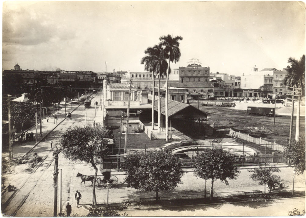 Hava, Cuba_1899-1903-estacion-de-villanueva-luego-el-capitolio-calle-dragones-y-prado